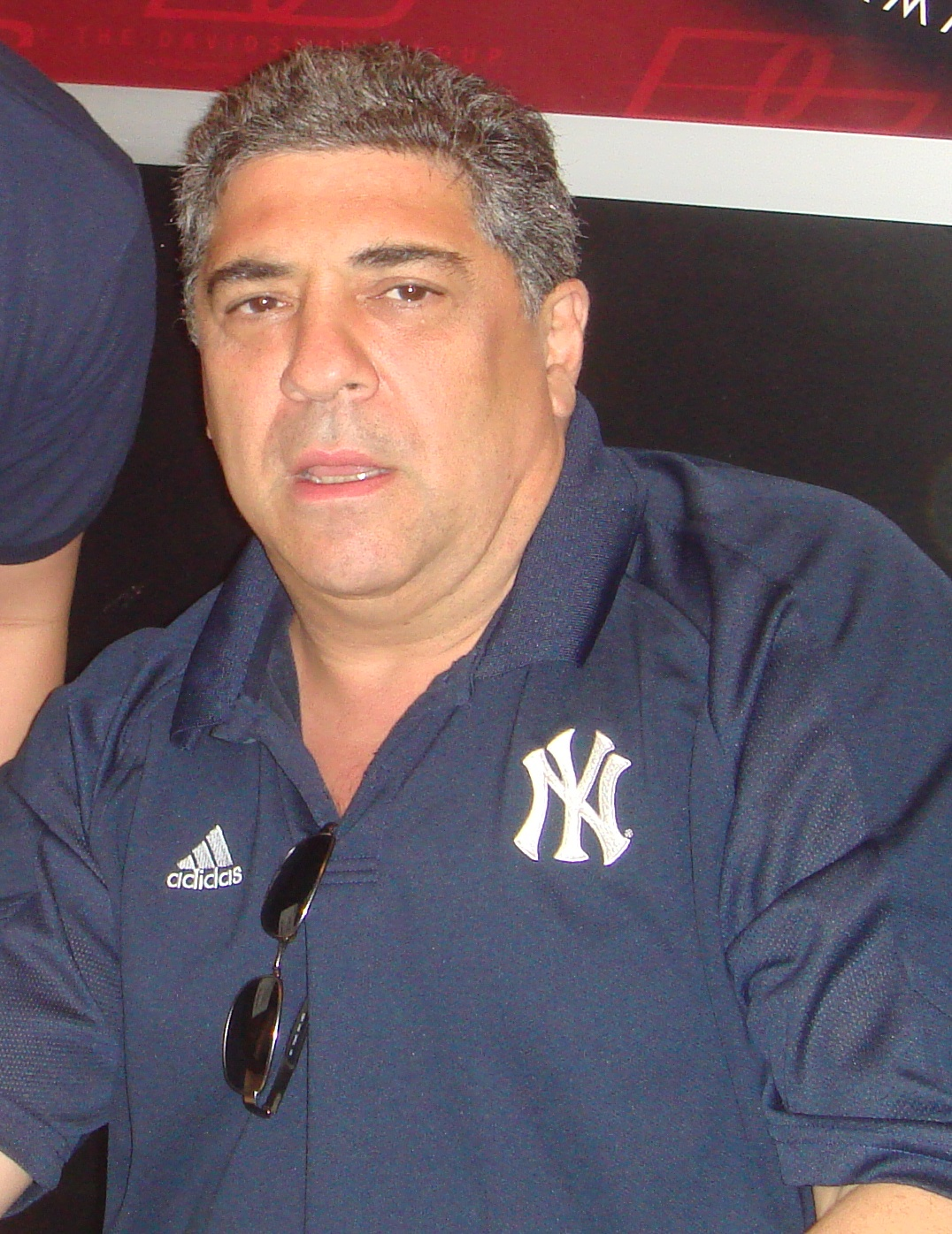 Vincent Pastore at the SIA show